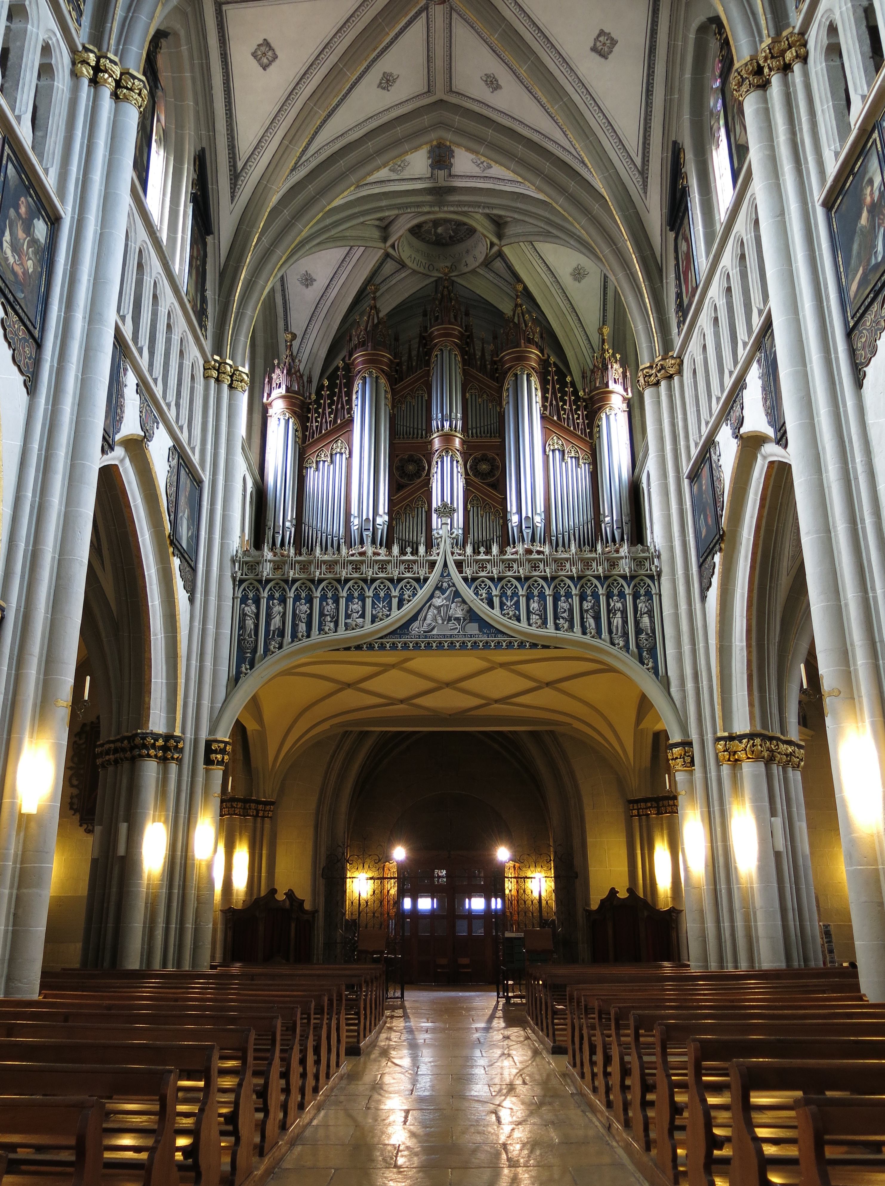 Fribourg, Switzerland